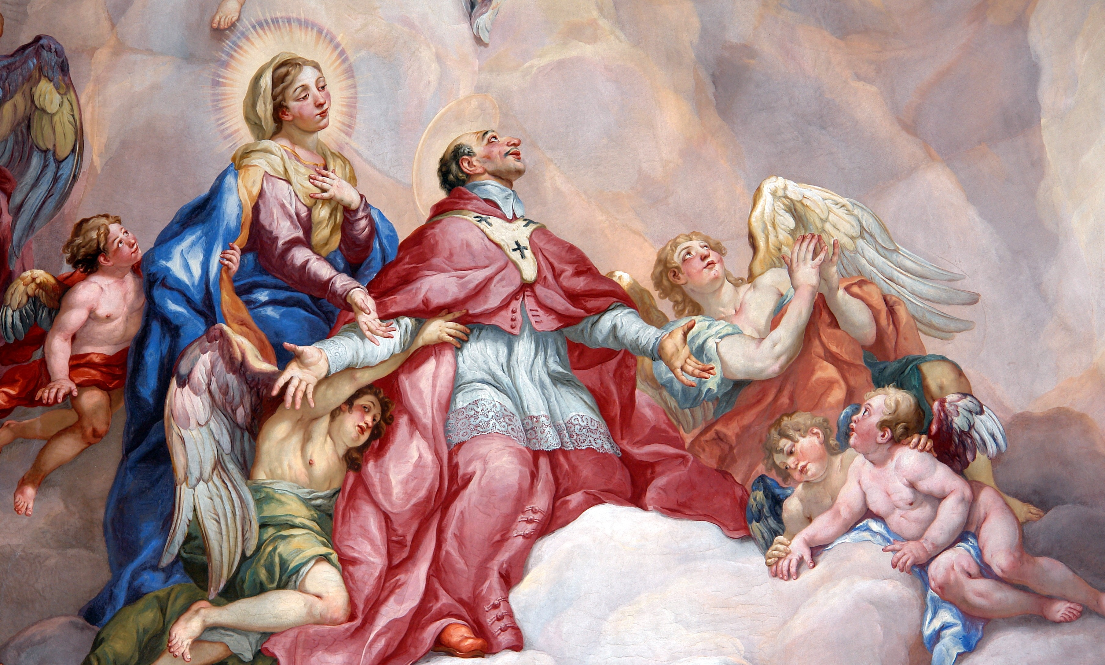 Intercession of Charles Borromeo supported by the Virgin Mary (1714). Ceiling paintings made by Johann Michael Rottmayr (1654-1730) for the Karlskirche, Vienna. Post-processing: fade correction.